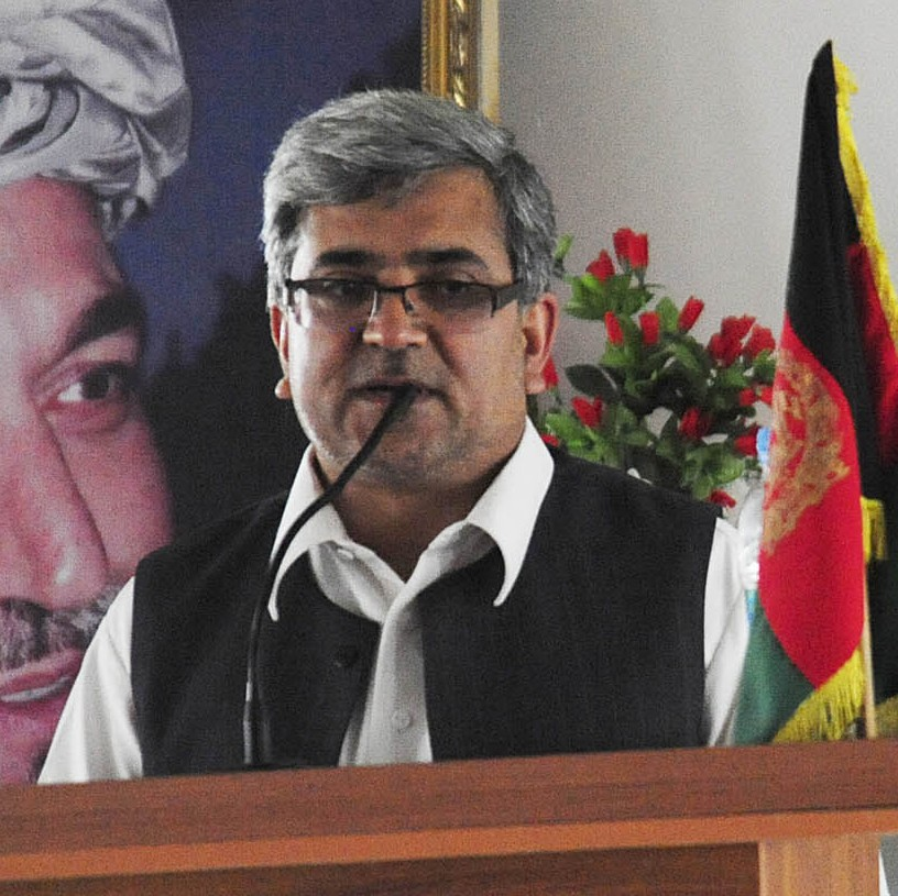 FARAH, Afghanistan (April 14, 2010) –Farah Provincial Governor Rahool Amin thanks representatives from North Atlantic Treaty Organization (NATO), Association for Rural Development, United States Agency for International Development, Provincial Reconstruction Team (PRT) Farah and local Non-Governmental Organizations for attending the Alternative Livelihood Donors Coordination meeting in Farah, Afghanistan, April 14,. (ISAF Photo by U.S. Air Force photo by 2nd Lt. Christine A. Darius)